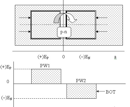 Molecular power 15. Occurrence of thermodynamic p-n transition and potential wells in a paired horizontal capillary.